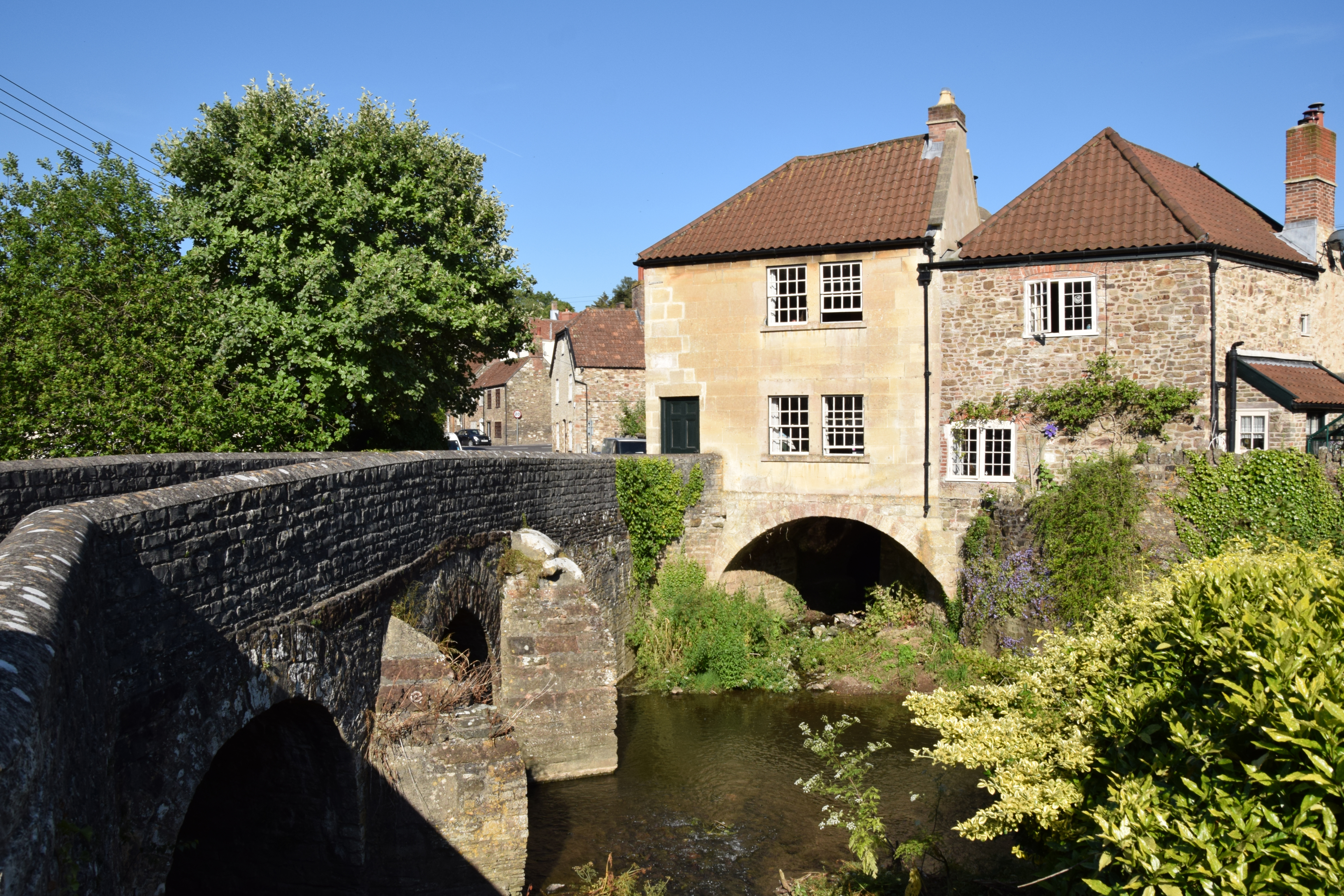 Bridge Over The River Chew Wikidata has entry Q26422479 with data related to this item. and Bridge House Wikidata has entry Q26429673 with data related to this item.